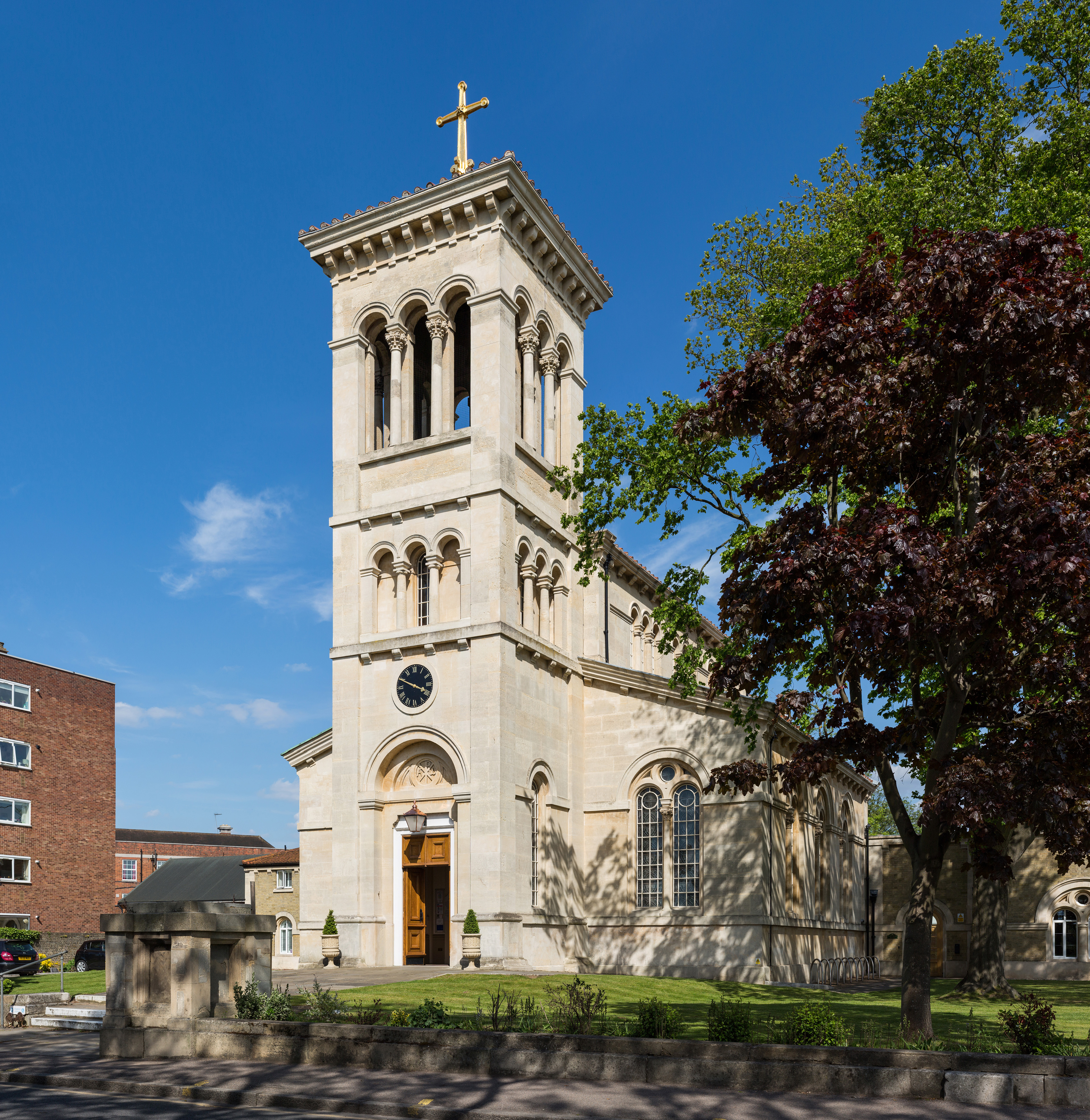 Roman Catholic church of St Raphael, Kingston, Surrey, England, seen from the southwest